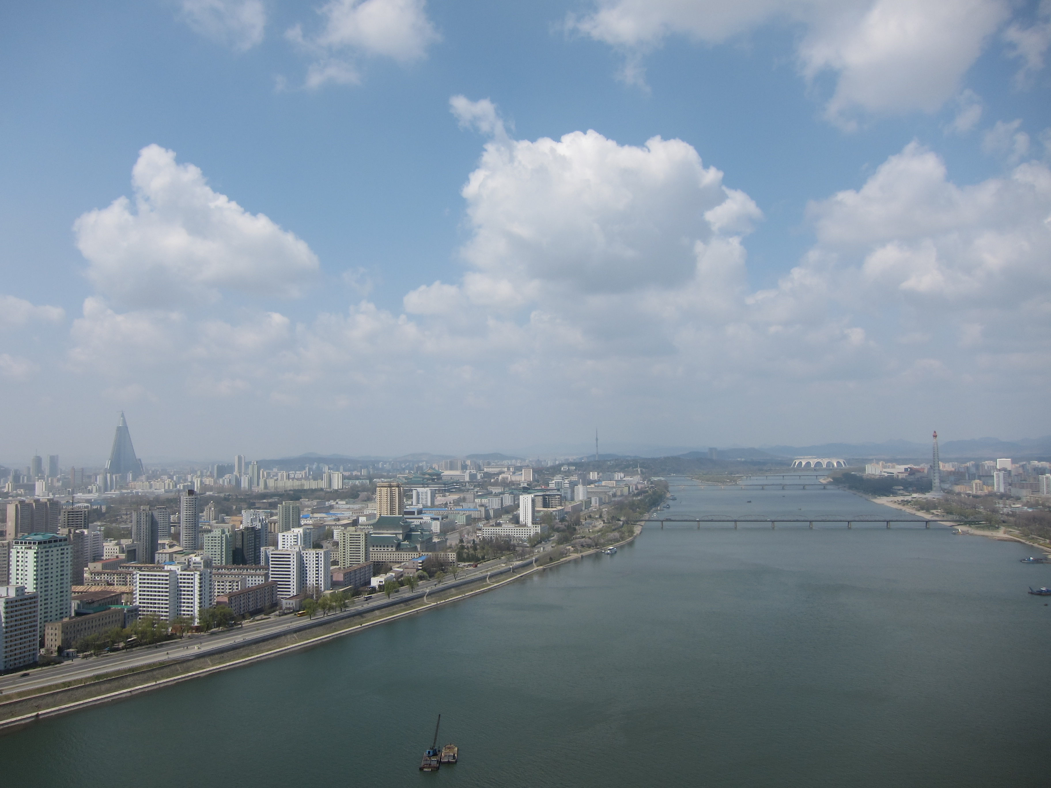 View of Pyongyang facing north from the Yanggakdo Hotel towards the Ryugyong Hotel (at left in the distance).